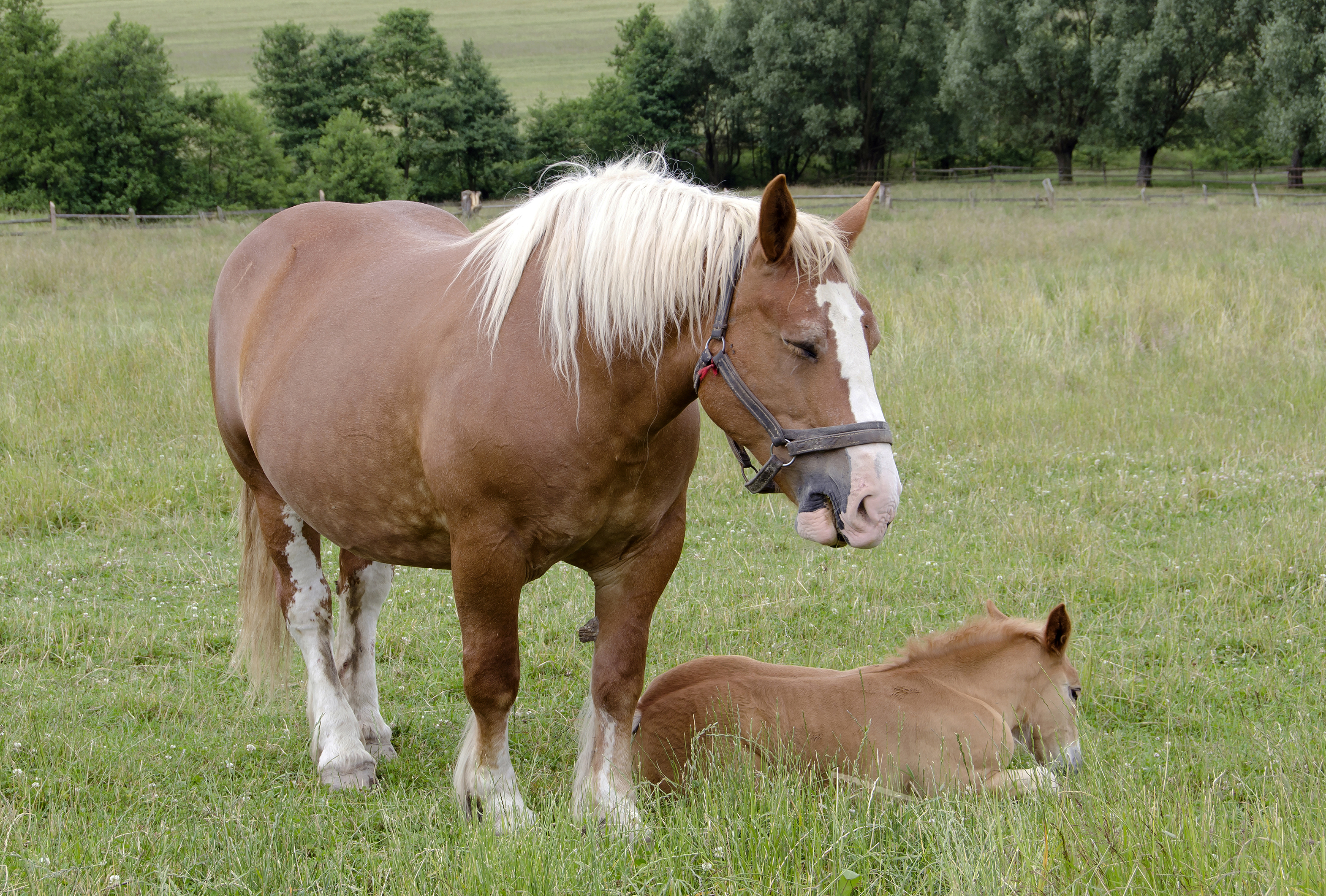 Foal with mother